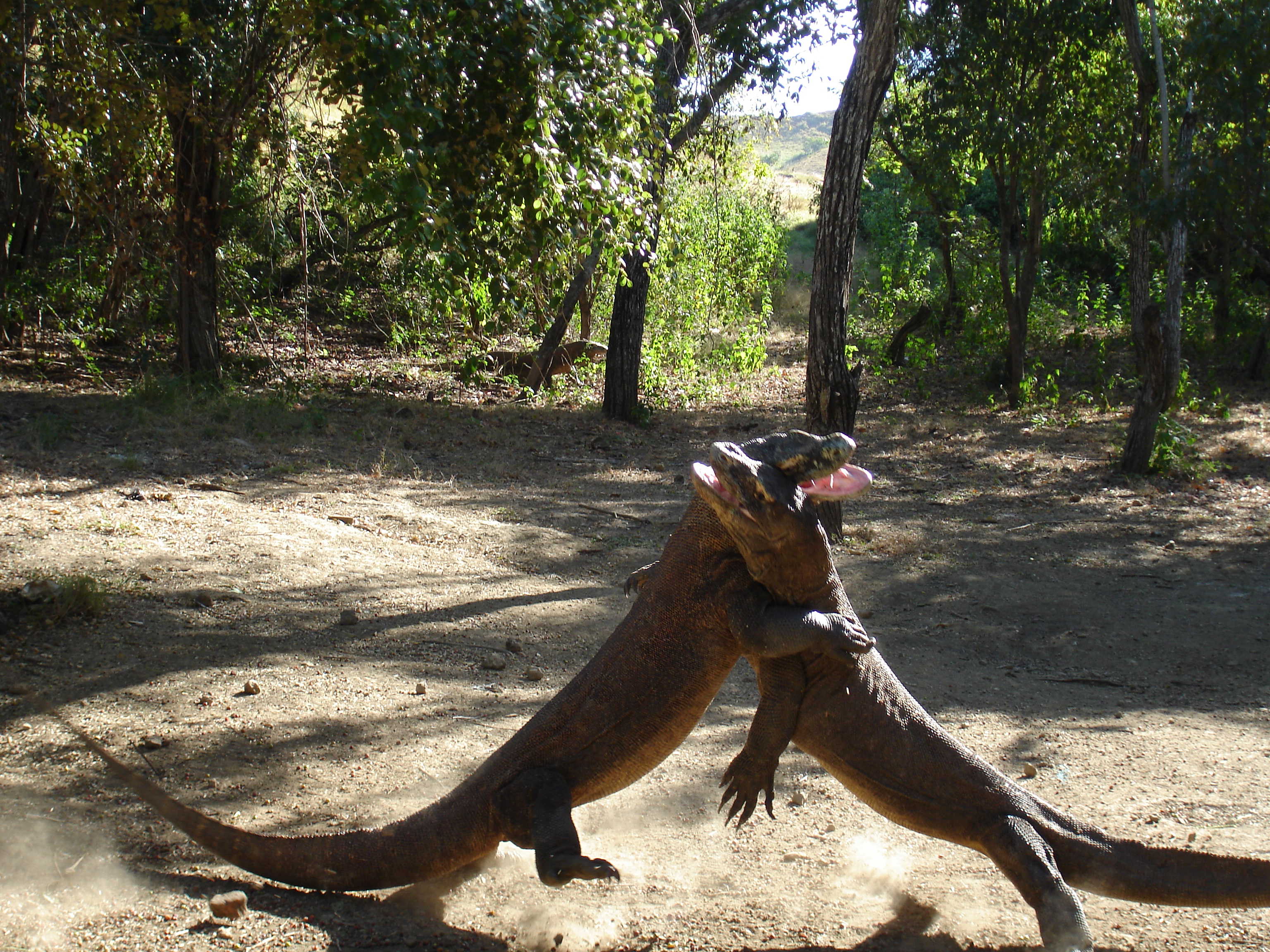 Male Komodo are wresting due to a mating season, the winner can mate the female one.